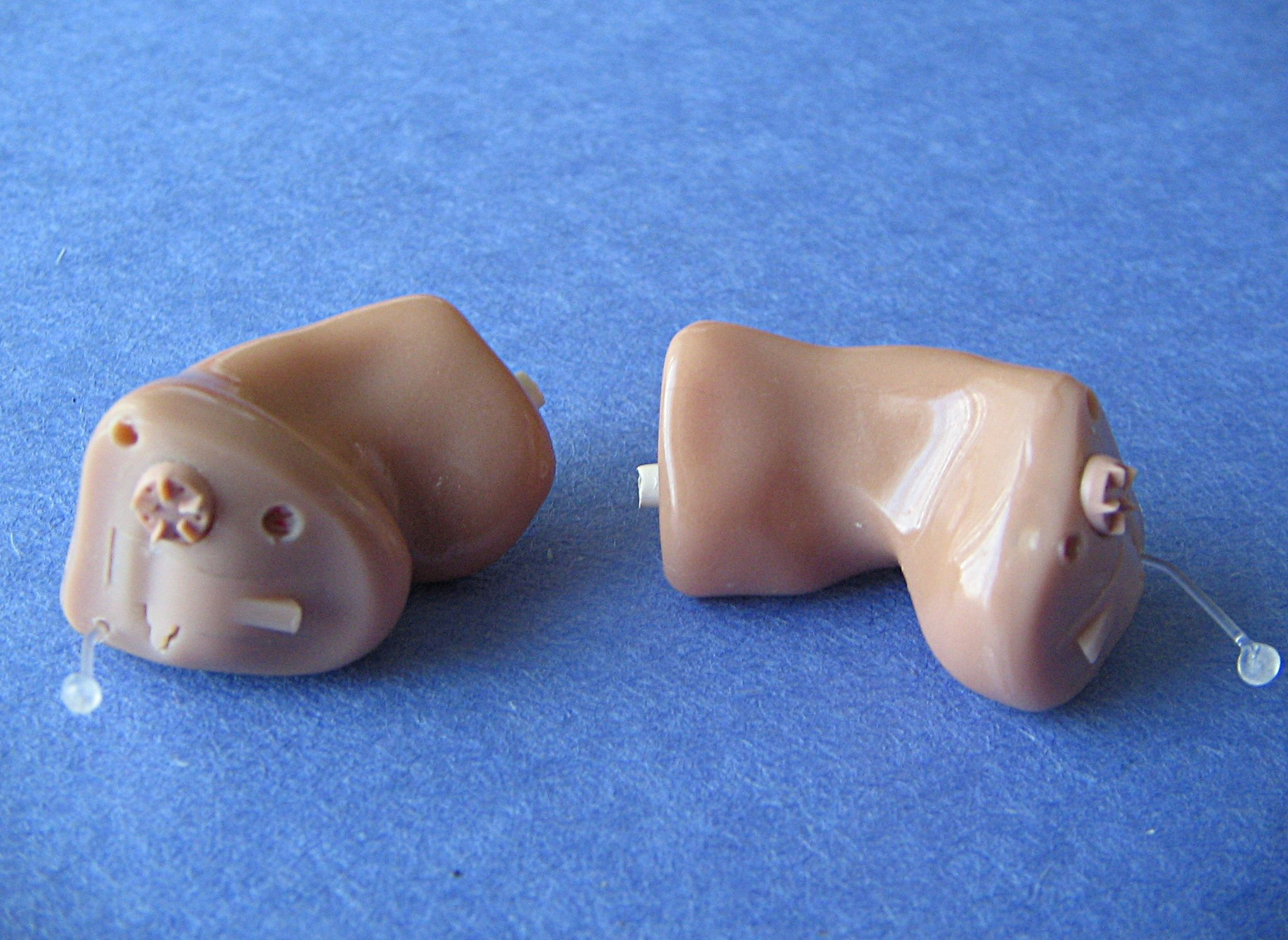 Hearing aids. Photo taken in the United States.